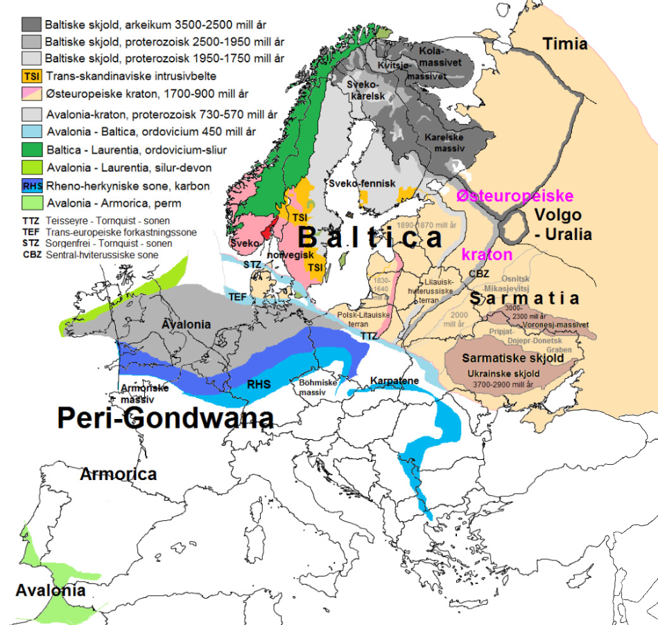 Geological map of Northern Europe, focusing on the Avallonian, Baltic and Sarmatian cratons and orogenies. (in Norwegian)